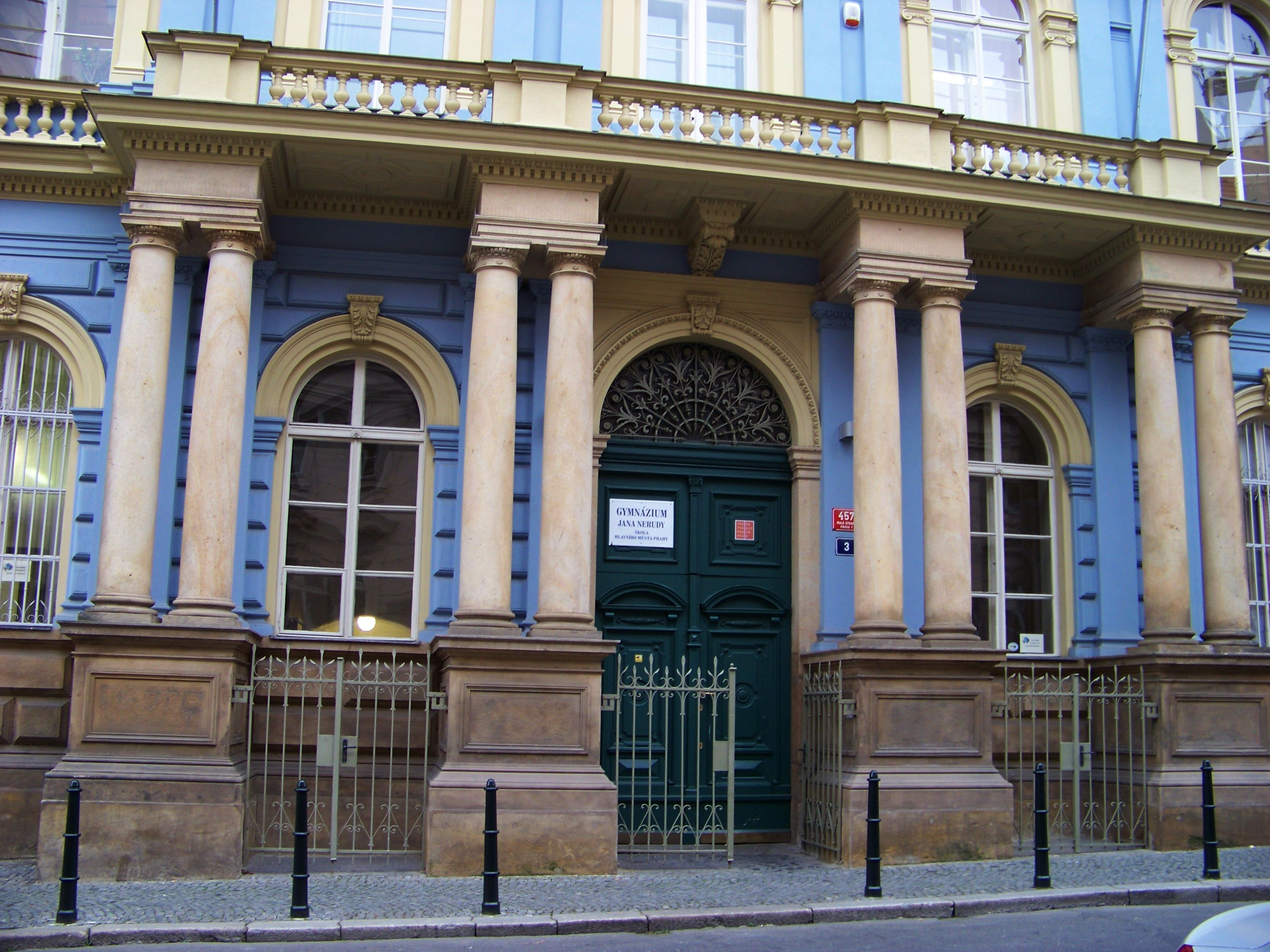 Prague-Malá Strana, the Czech Republic. Hellichova 457/3, Jan Neruda's Gymnasium. - Google Maps - Google Earth